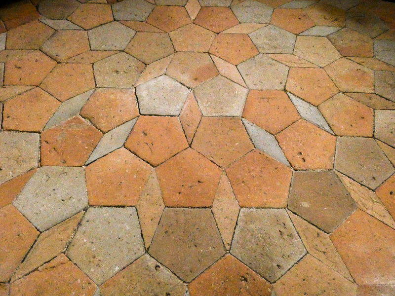 Tiling in the Pilgrimage Church of Saint John of Nepomuk at Zelena Hora, Czech republic.